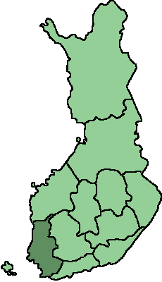 The Finnish province of Turku-Pori (Turun ja Porin lääni) as of 1997